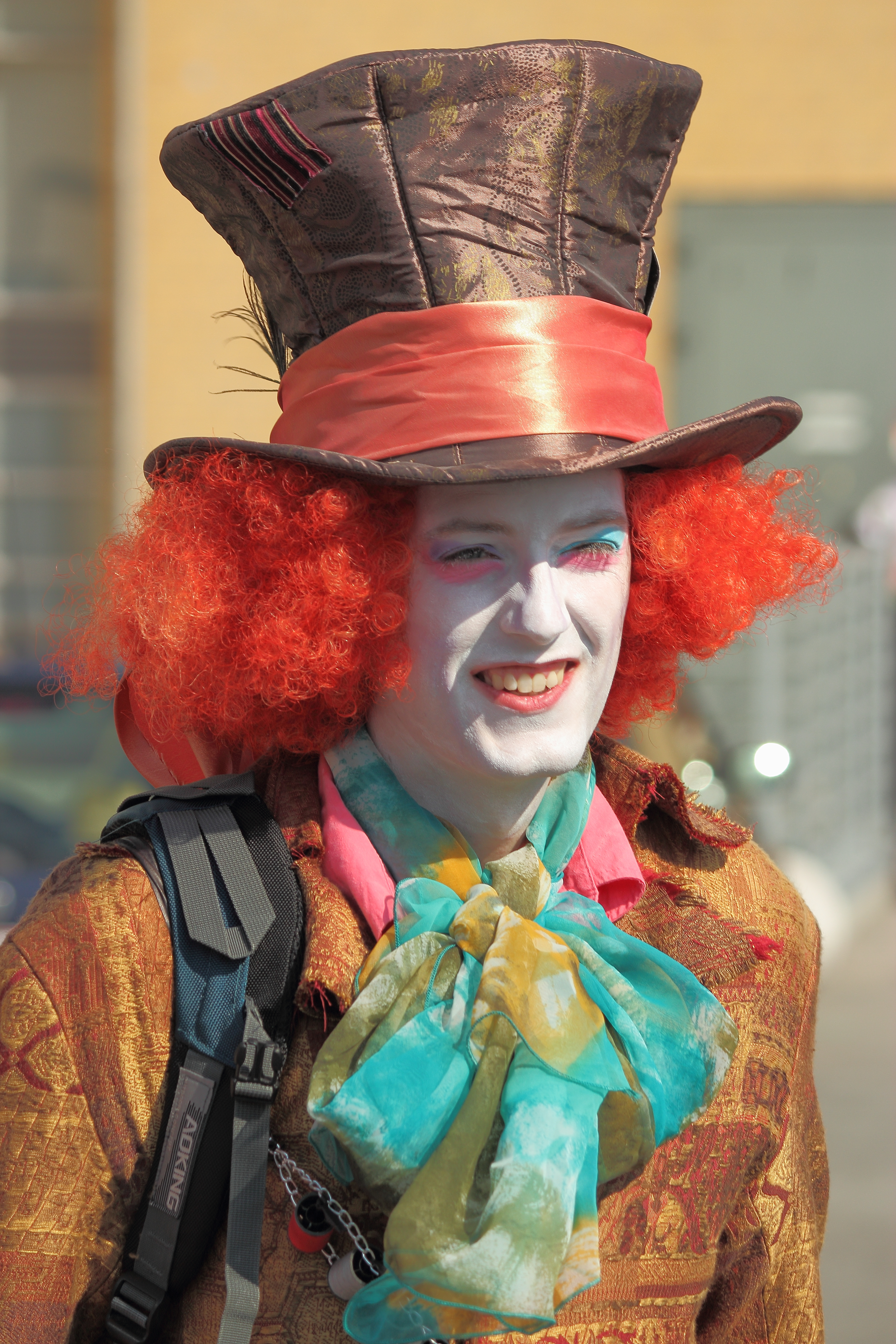 A cosplayer dressed as Mad Hatter (Alice in Wonderland) at the main entrance at Øksnehallen in Copenhagen participating in j-popcon 2014, a conference about Japanese popular culture.